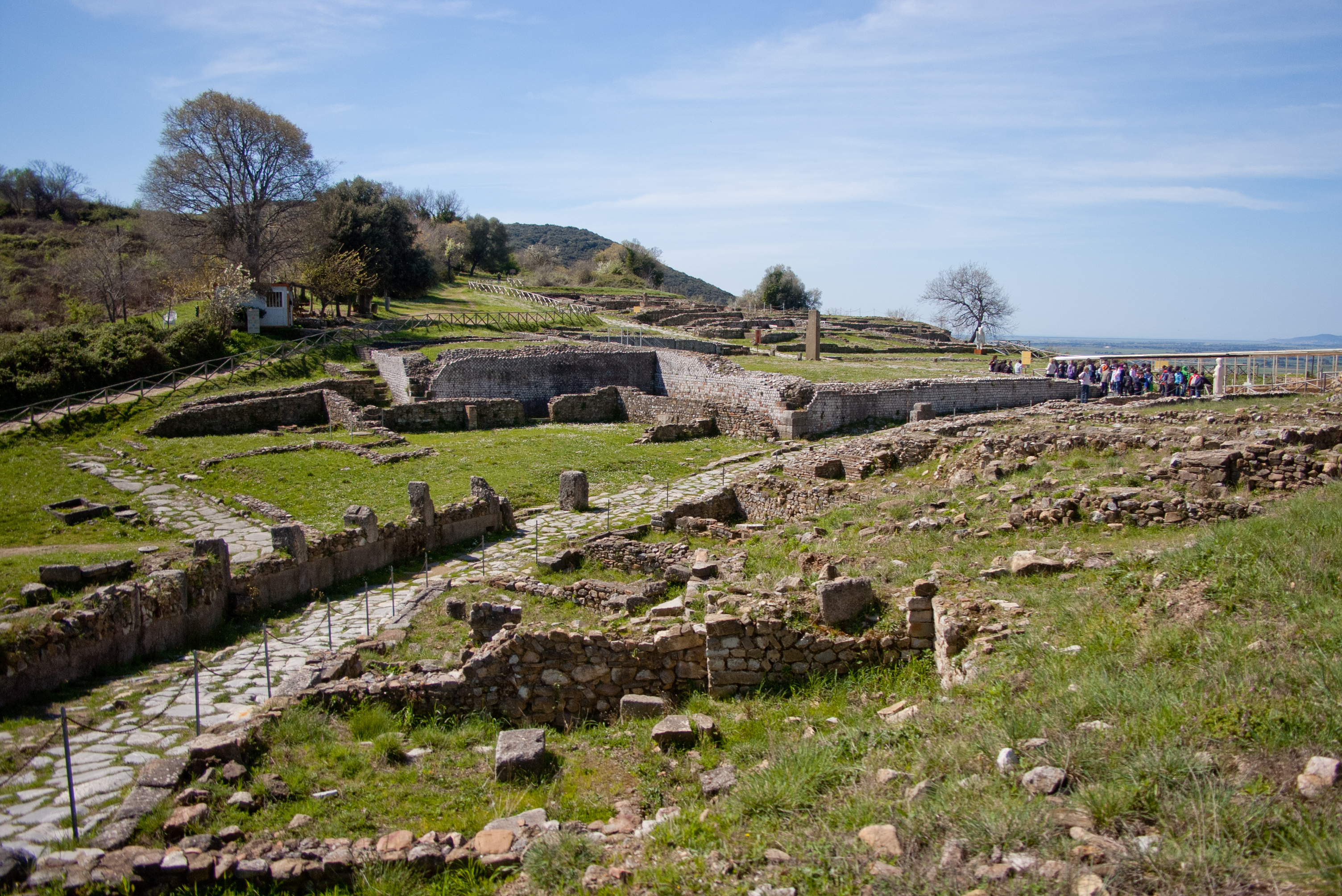 The Etrusco-Roman site of Rosellae, Italy.